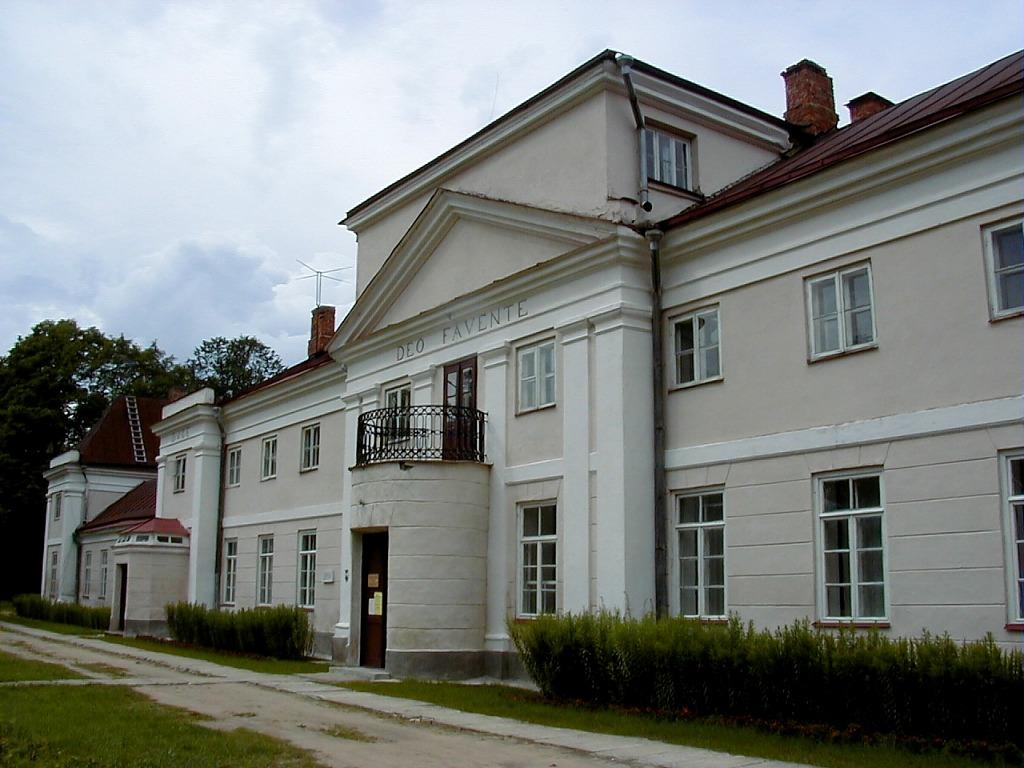 Varakļāni Palace